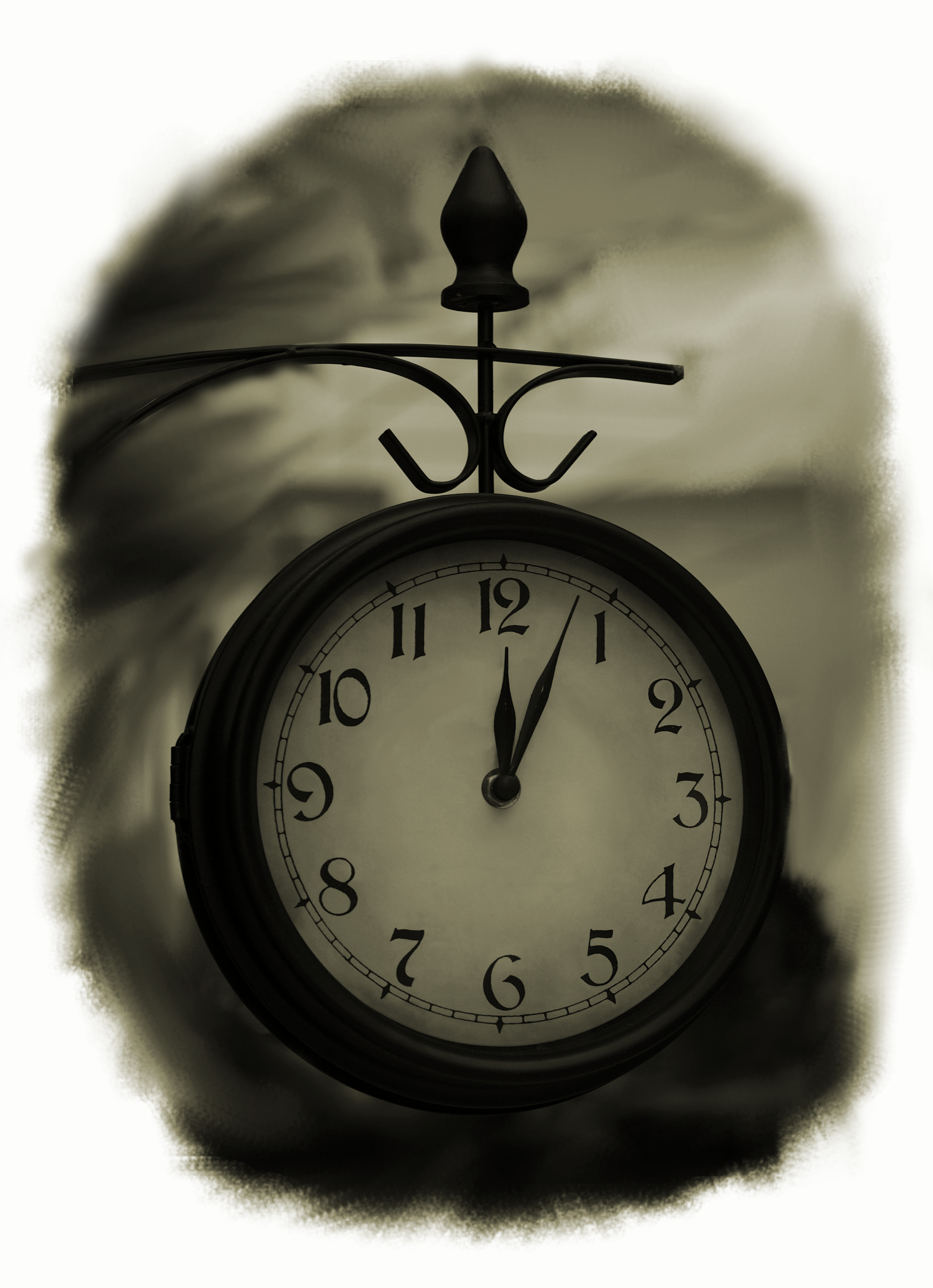 Railway station clock.